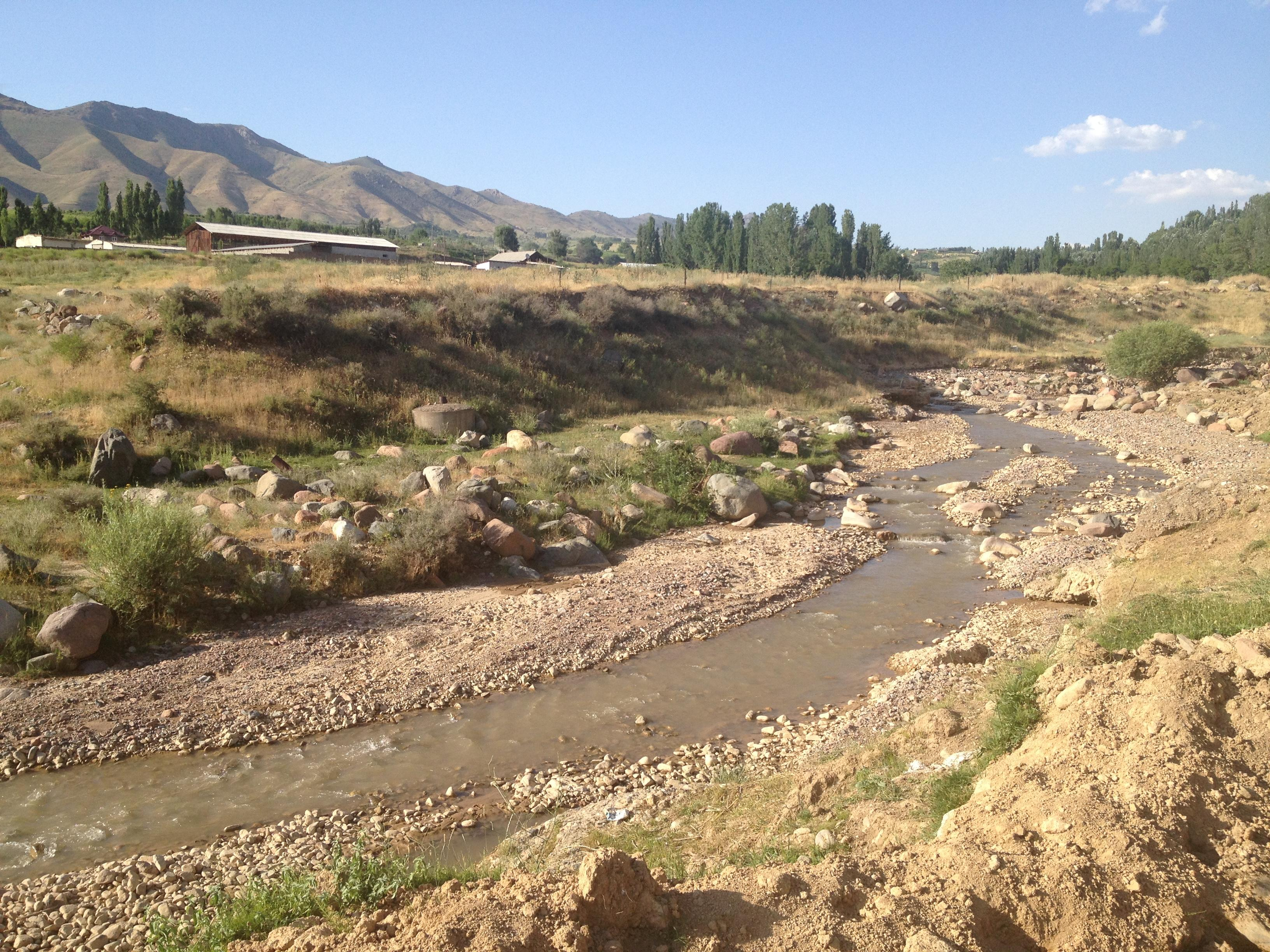 Valley of Parkent Say after Kyrgyz village